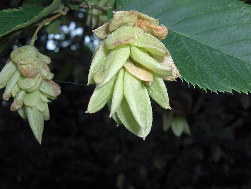 Eastern Hop Hornbeam catkins